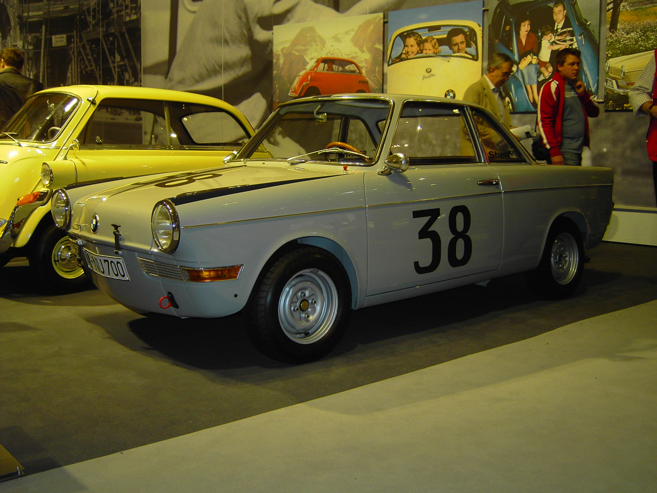 Foto des BMW 700 cs sport coupe Rennwagens mit 60 PS der BMW AG von vorne